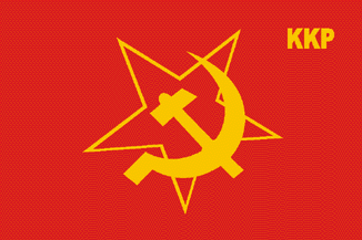 Flag of the Communist Party of Kurdistan